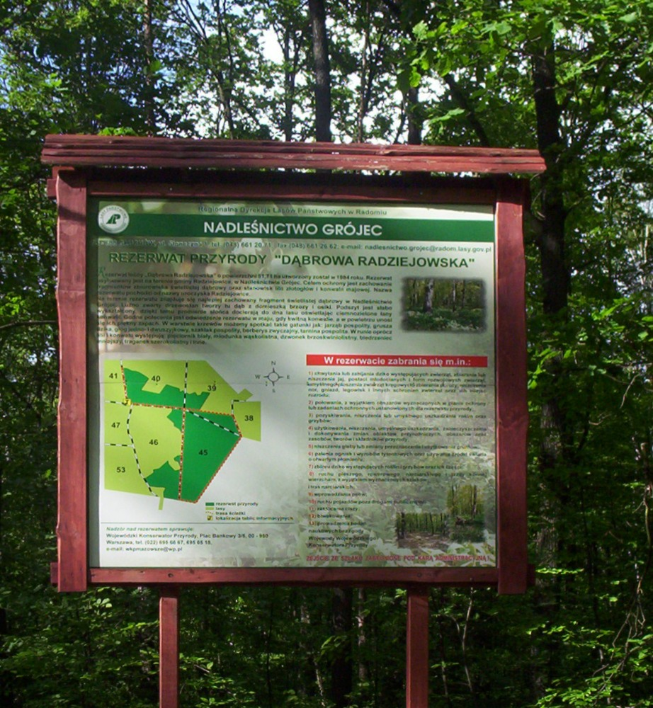 Information tablet - in nature reserve Dąbrowa Radziejowska, Poland.